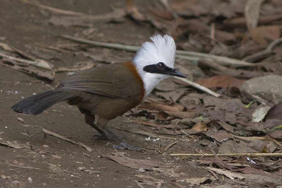 The species White-crested Laughingthrush had been photographed from Rongli in East Sikkim, India on 10.04.2016.